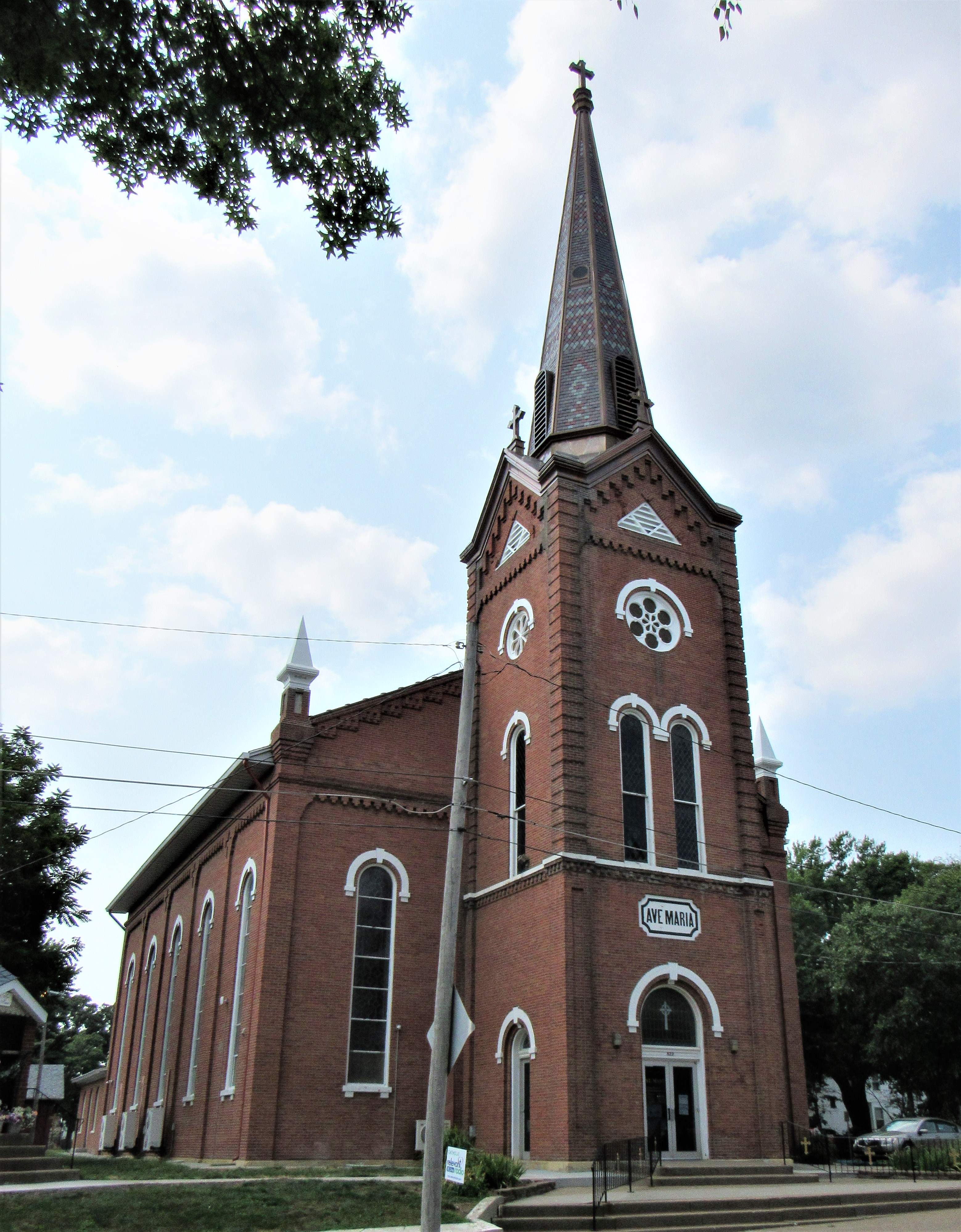 St. Mary's Catholic Church in Davenport, Iowa. It is listed on the National Register of Historic Places.